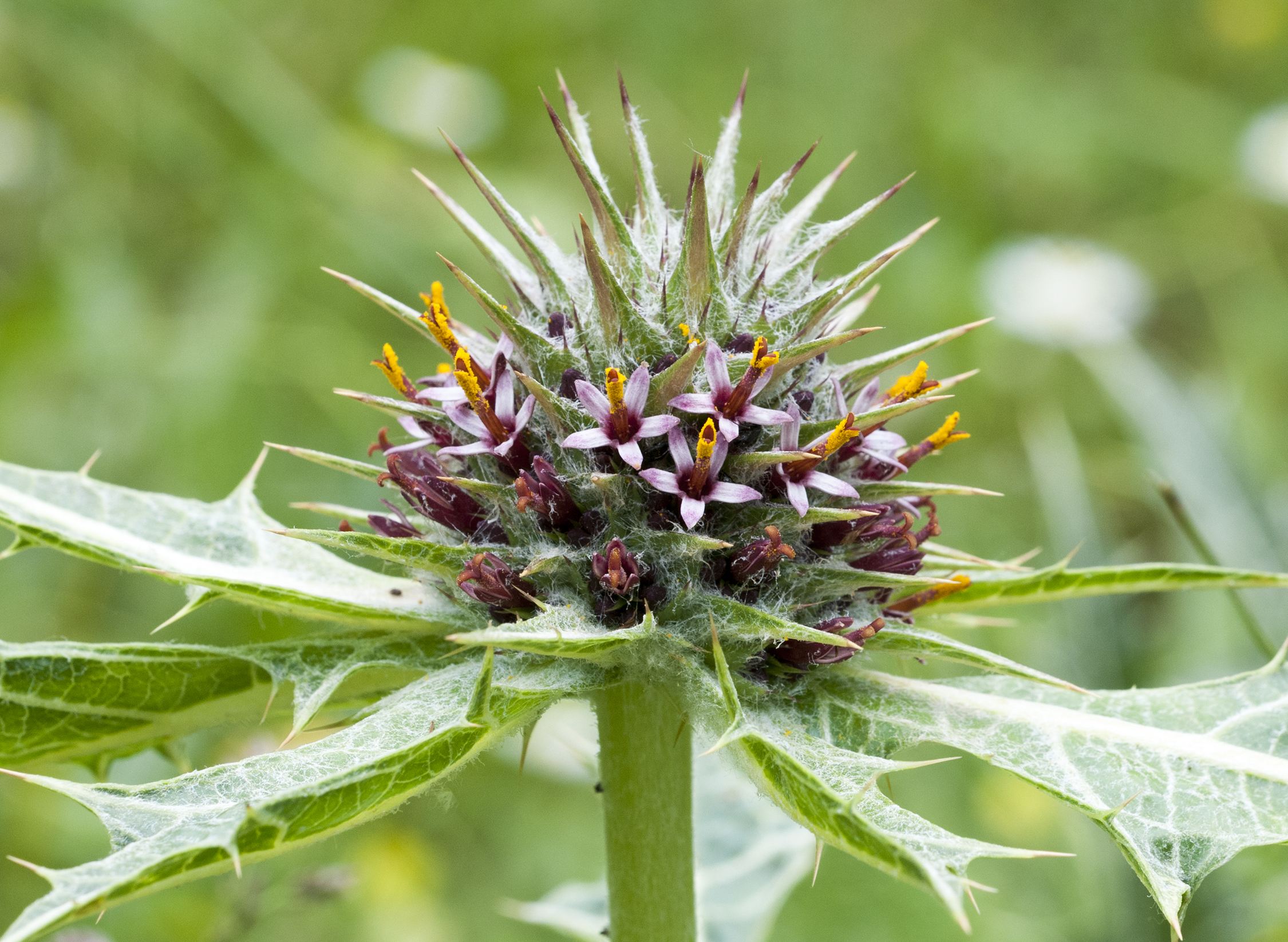 Flowers of Gundelia (Gundelia tournefortii ). Saimbeyli - Adana, Turkey.